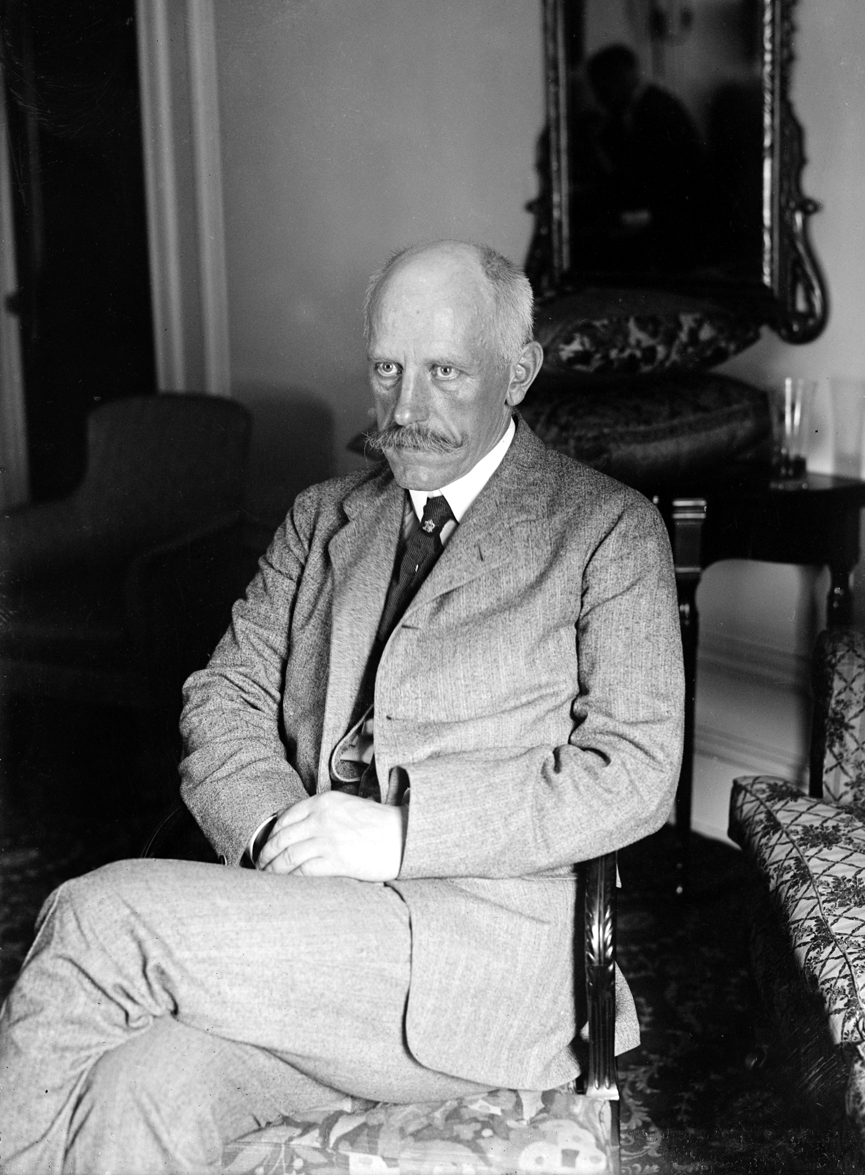 Fridtjof Nansen. Probably from 1918, when Nansen was on a negotiation mission to the US; compare with this